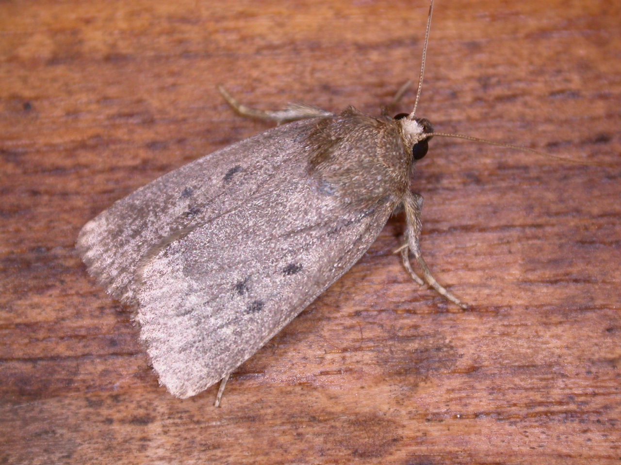 Amphipyra tragopoginis, to MV light, Hellerup, Denmark, 25 August 2002